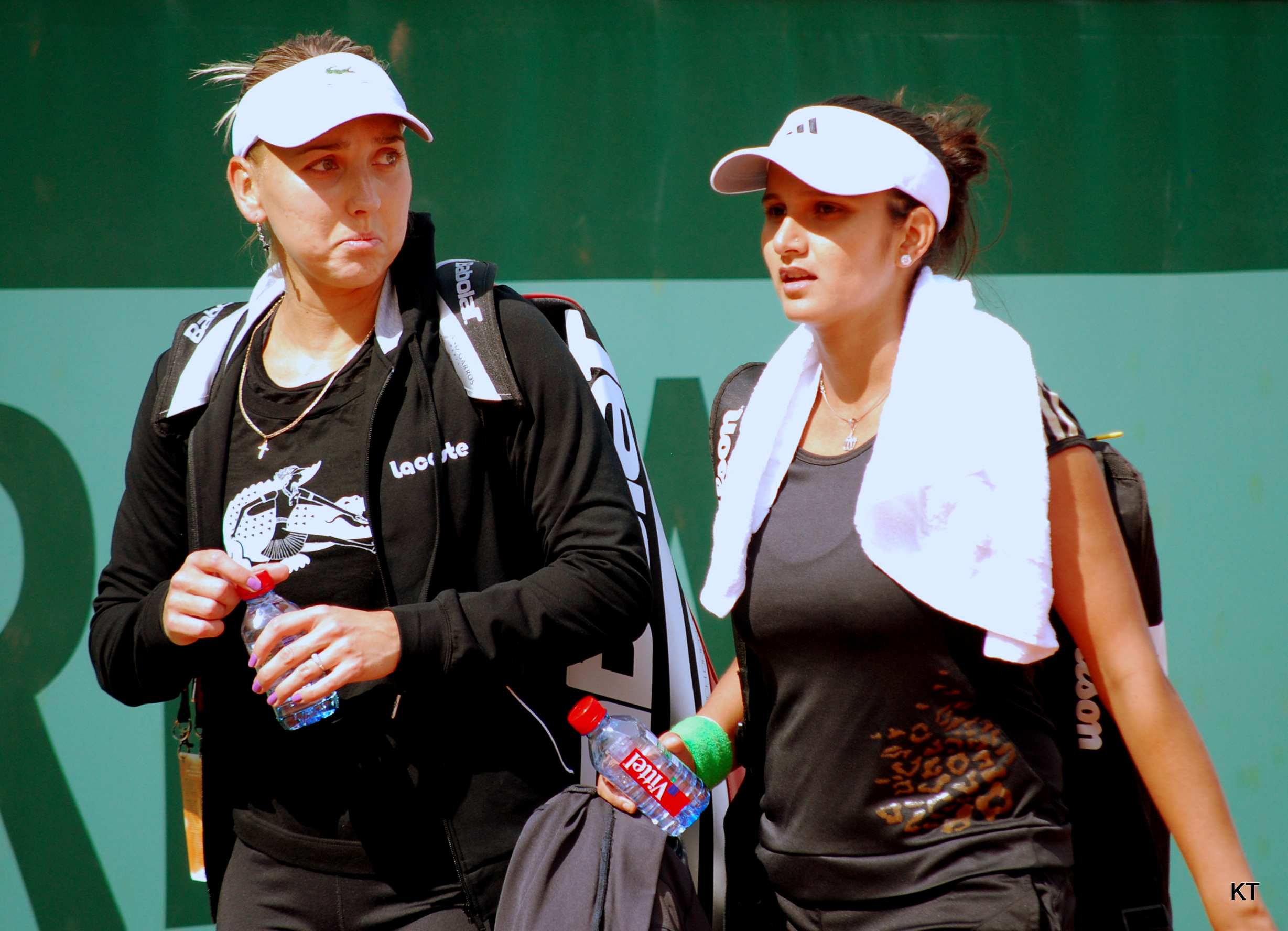 After a practice session. Roland Garros 2011.